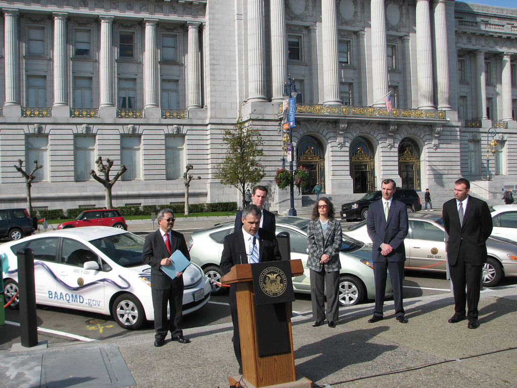 Debut of San Francisco's new Plug-In Charging Stations in front of City Hall; new plug-in hybrids from two car share companies; speeches by Mayor Newsom, City Administrator Edwin Lee; Richard Lowenthal of Coulomb Technologies; Brent O'Brien of City Car Share; Mark Norman of Zipcar; Barbara Hill of SF Public Utilities Commission.